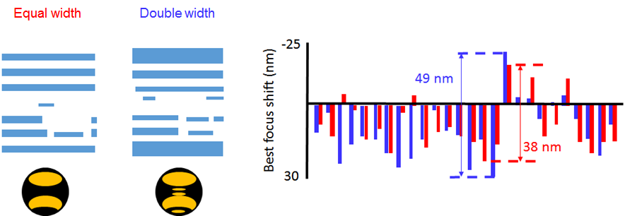 A mere widening of a power rail feature (top and bottom of sampled pattern) is enough to drastically change the optimized pupil shape as well as degrade the range of best focus at different points in the 32 nm target pitch pattern, even with the use of assist features. Ref.: T. Last et al., Proc. SPIE 10143, 1014311 (2017).